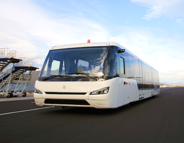 VIVAIR airport bus at the airport